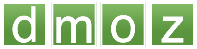 Logo of DMOZ, from the 2014 rebrand of the website.